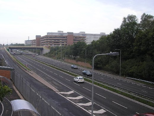 A48 Eastern Avenue, Cardiff A48 Eastern Avenue, Cardiff looking west taken from Allensbank Road. The main building on the right is the University Hospital of Wales (aka Heath Hospital).